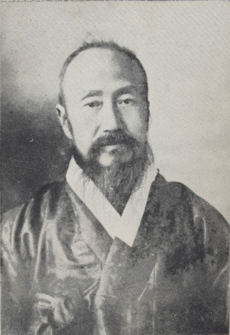 Jwaong Yun Tchi-ho (1864-1945), Modern Korean philosophers, independence activists, politicians, educators